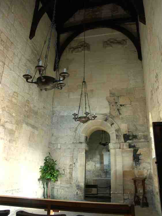 St. Lawrence, Bradford on Avon, England